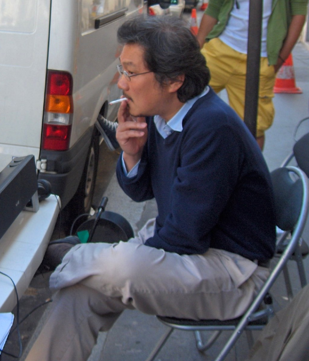 Hong Sang-soo on the set of Night and Day, 5 September 2007